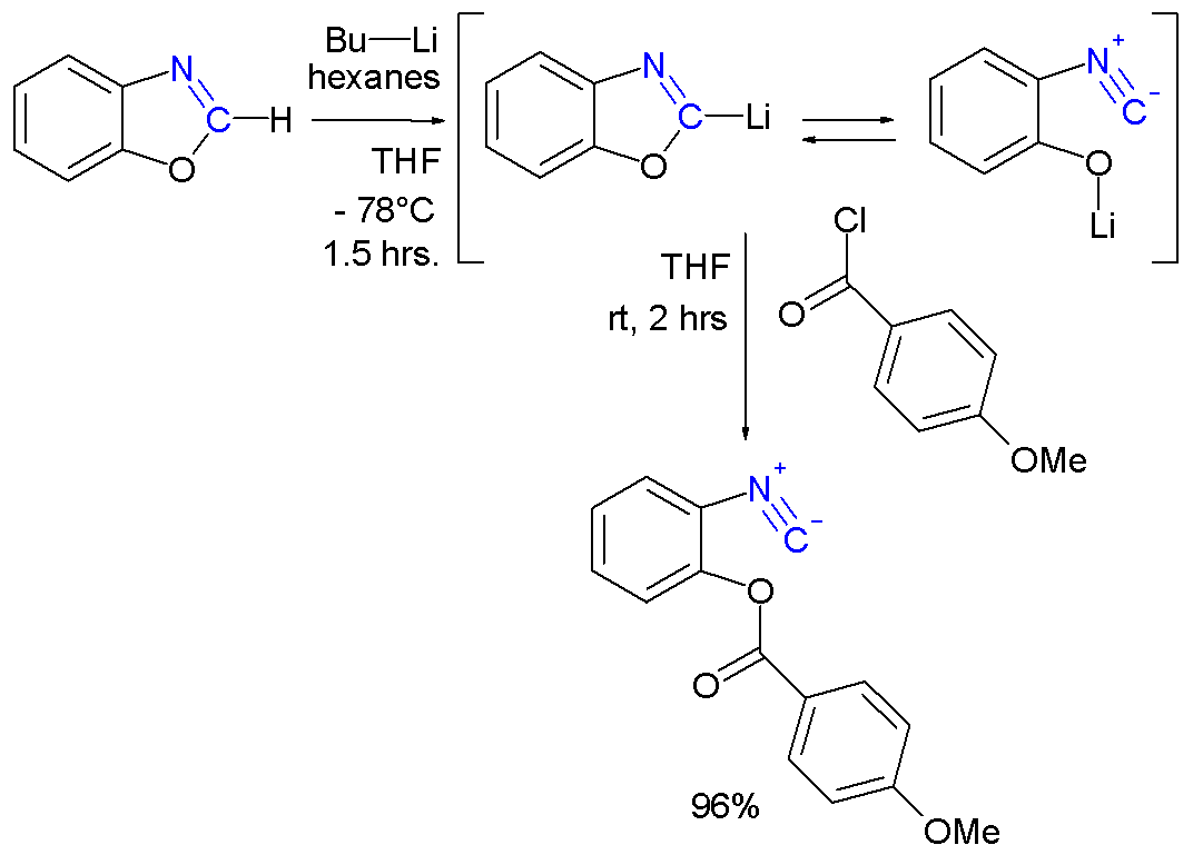 IsonitrileOxazoleSynthesis